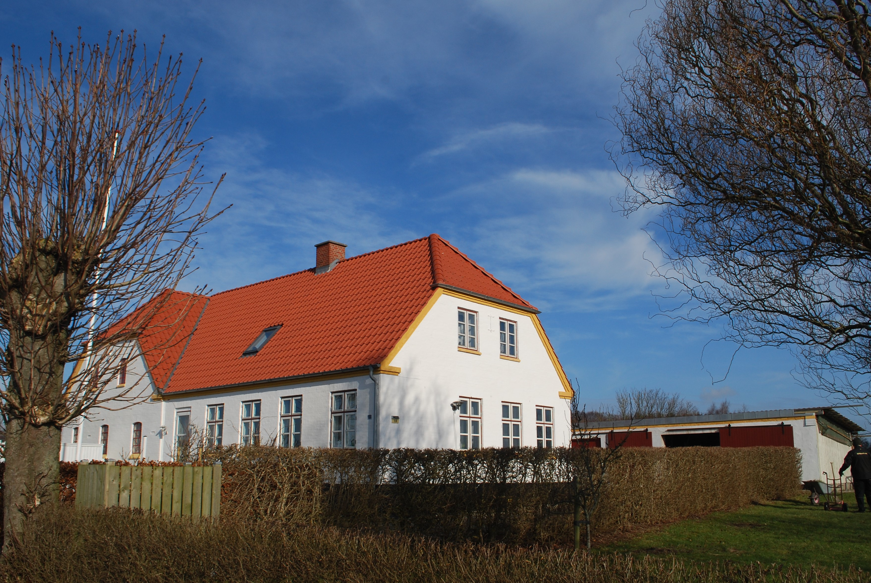 a Tenant farm, Rønhave, Denmark